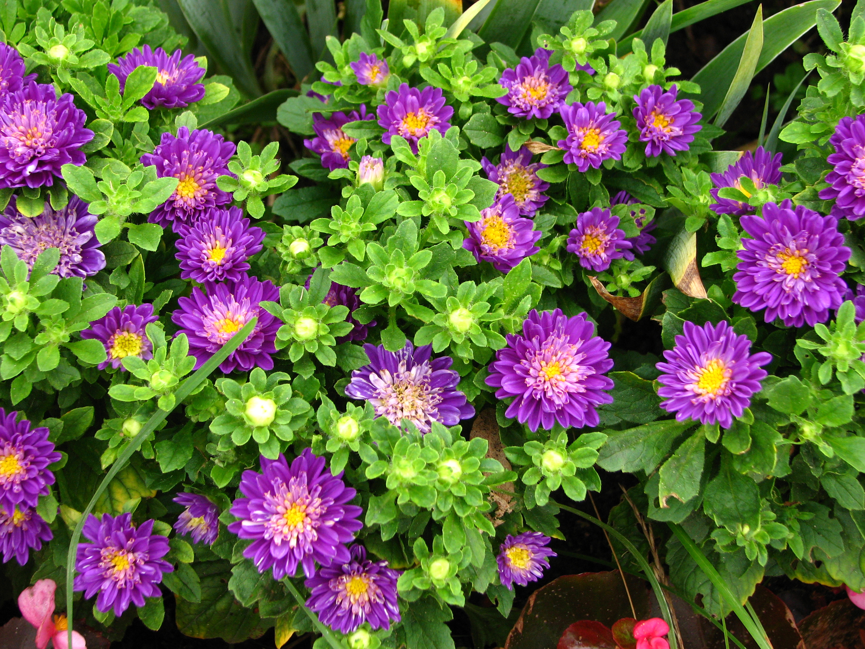 Flower beds in park Kolomenskoye (Moscow).